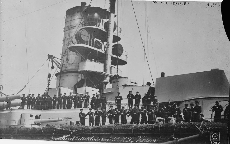 View of the bridge of the German battleship SMS Kaiser, 1913-14.